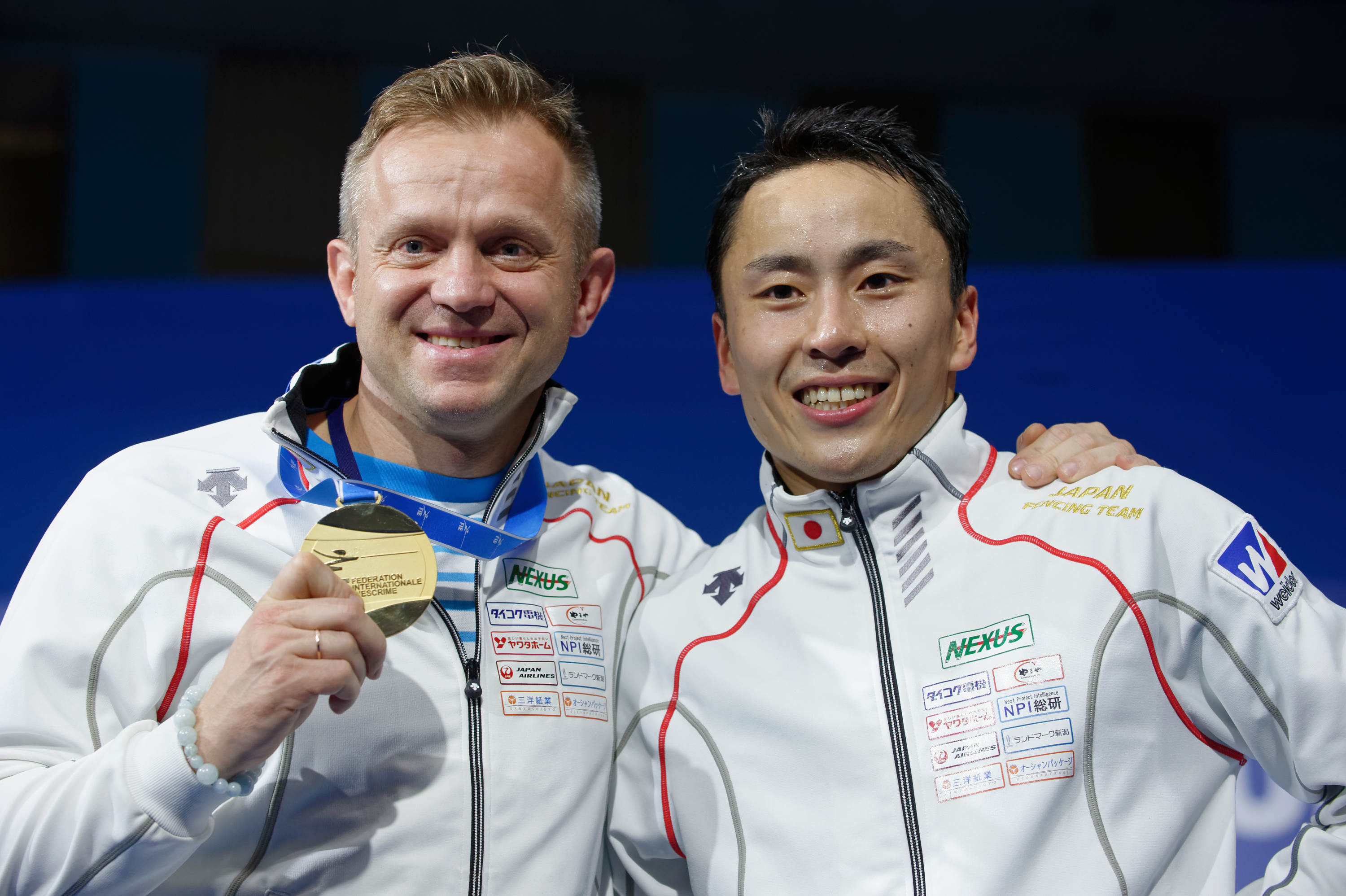 Japan's Yuki Ota and his coach Oleg Matseichuk at the medal ceremony for men's foil at the 2015 World Fencing Championships on 16 July 2014 at the Olympic Stadium in Moscow.